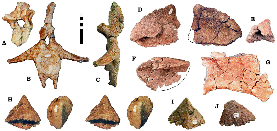 Postcranial material of Oohkotokia horneri, gen. et sp. nov. (MOR 433, holotype). A, partial cervical vertebra; well-preserved fourth or fifth free caudal in B, distal and C, left lateral view; D, lateral plate in two views; E, conical osteoderm; F, oval, low-keeled osteoderm in external view; G, partial scapula; H, stereo pair of two osteoderms; I, opposite (=cranial) view of conical osteoderm shown in H; J, ribbed subconical osteoderm. Scale bar equals 10 cm.